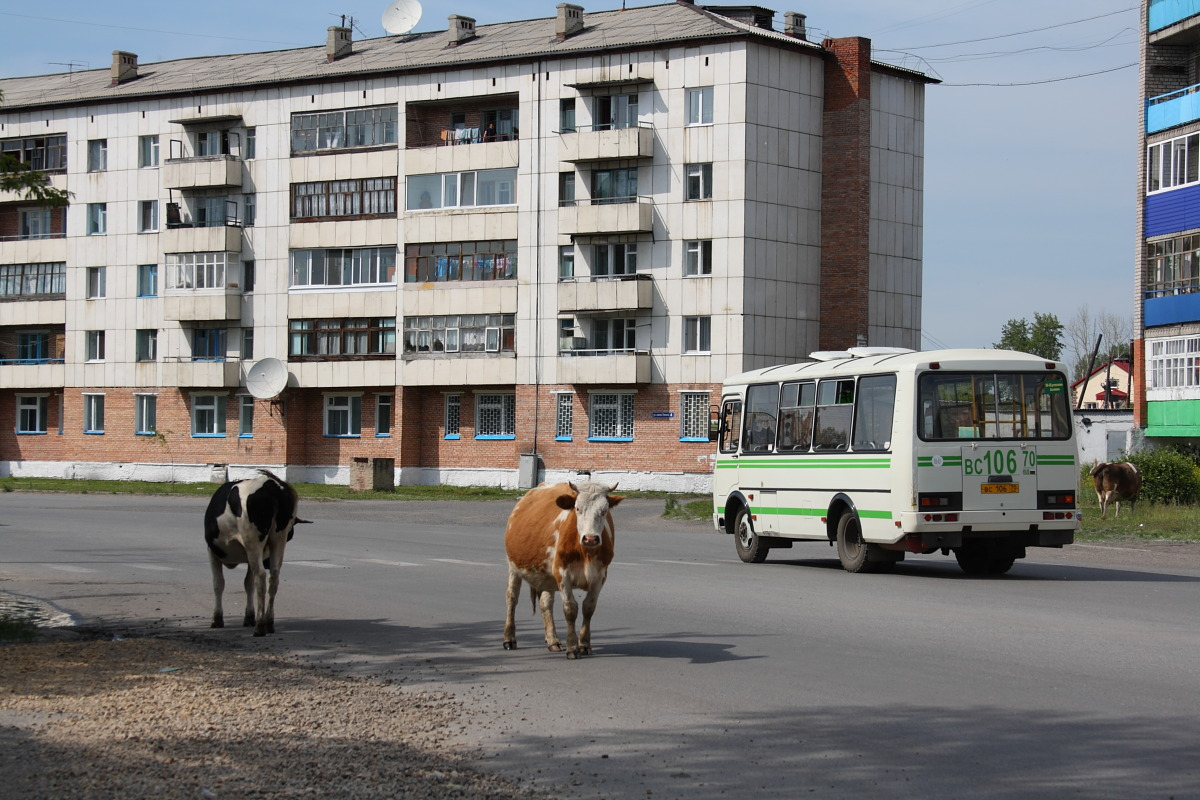 The city of Asino in Russia.